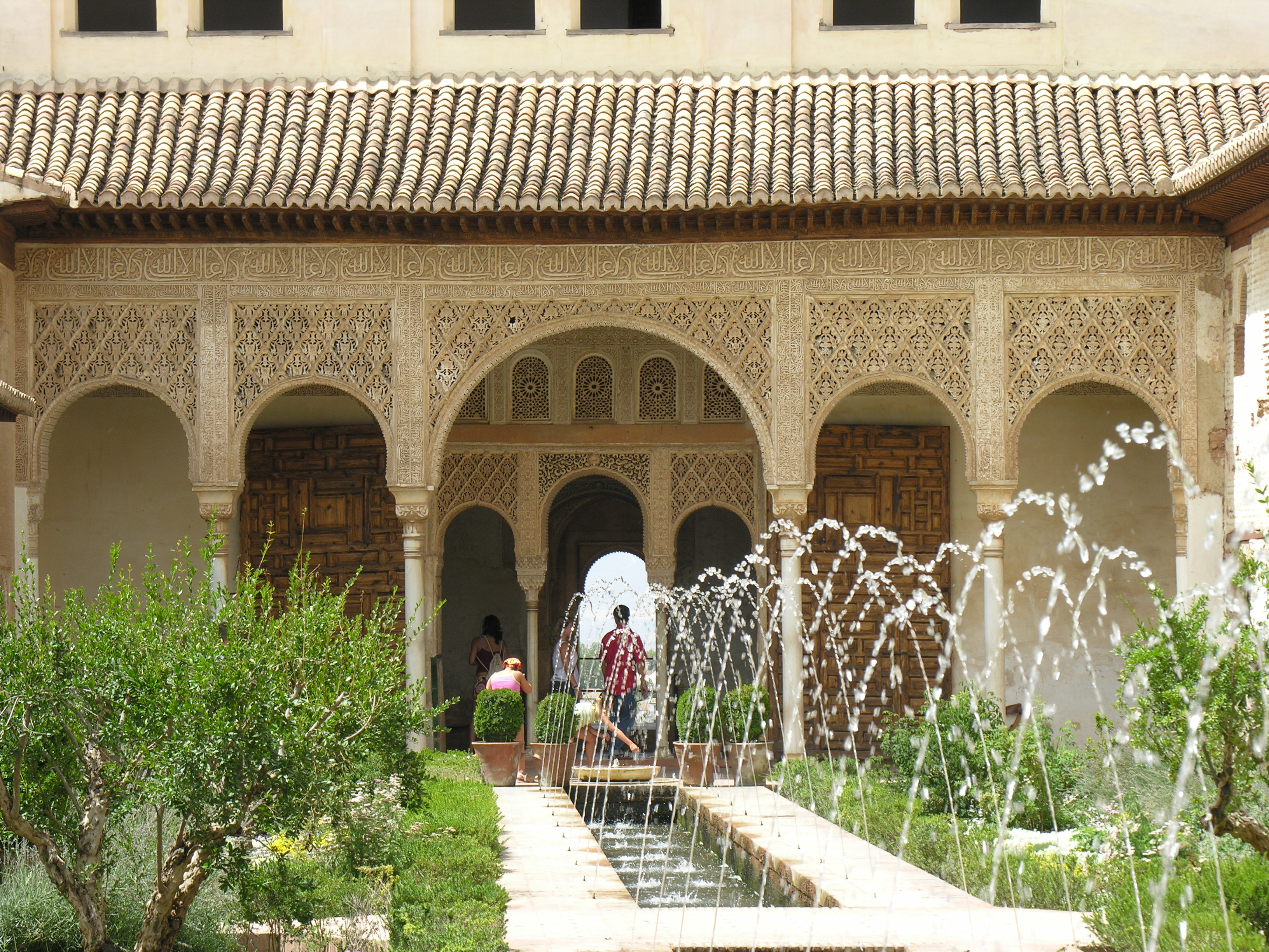 Generalife Palace, Alhambra, Spain